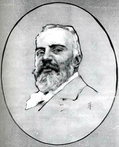 Dimitrios Koromilas, Greek writer